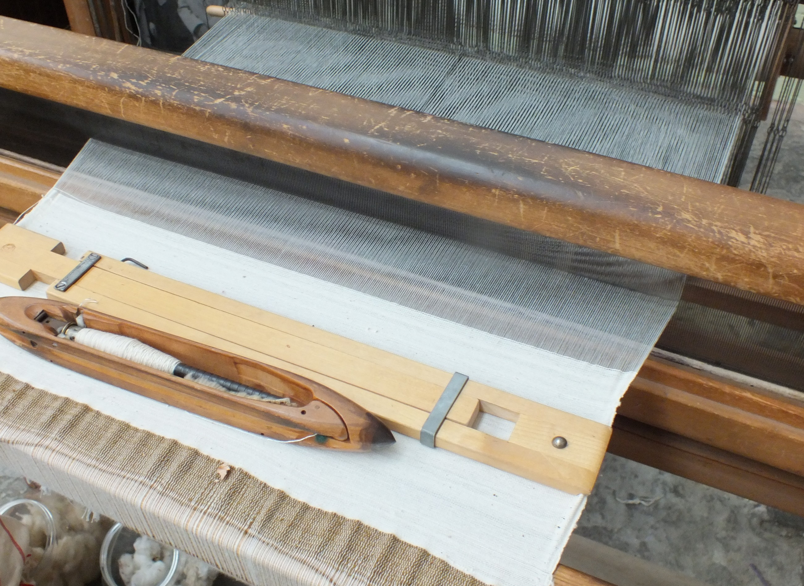 Queen Street Mill in Harle Syke, a suburb to the north-east of Burnley, Lancashire, was built in 1894 for the Queen Street Manufacturing Company. It closed on 12 March 1982 and was mothballed, but was subsequently taken over by Burnley Borough Council and used as a museum. In the 1990s ownership passed to Lancashire Museums. Unique in being the world's only surviving steam-driven weaving shed. The Pemberton loom was standard in this shed.